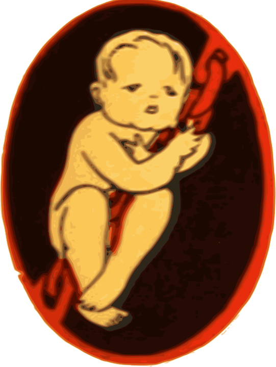 Illustration to the play Mărgeluș ("Tiny Bean"), showing the absent protagonist, a fetus, clinging on to a chain; the work is about his rescue of a relationship between an upper-class man and a typist.